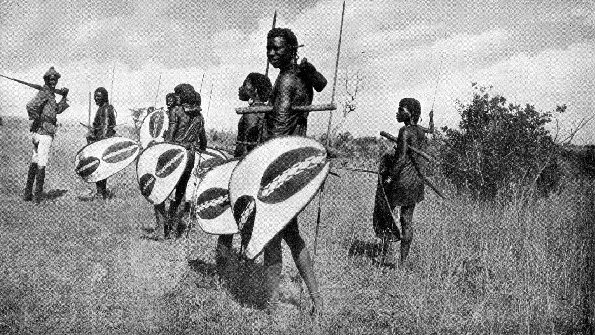 African fighting men, ready for a raid.